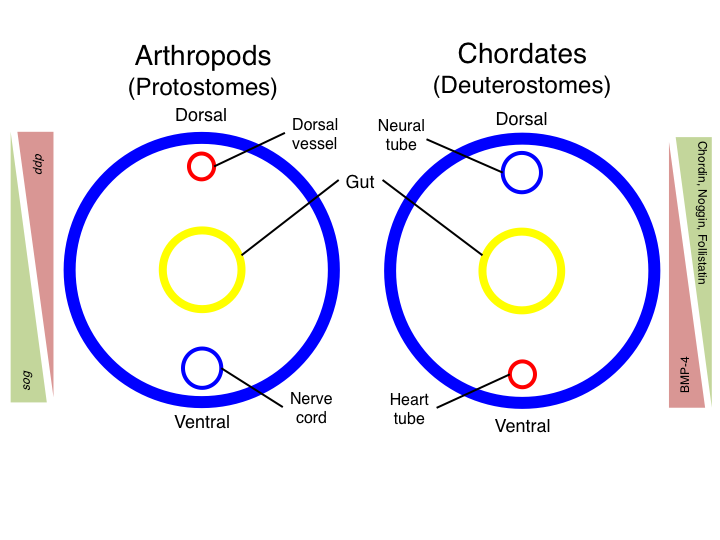 Generalized protostome and chordate body plans illustrating the opposite orientation of TGF-beta gradients.